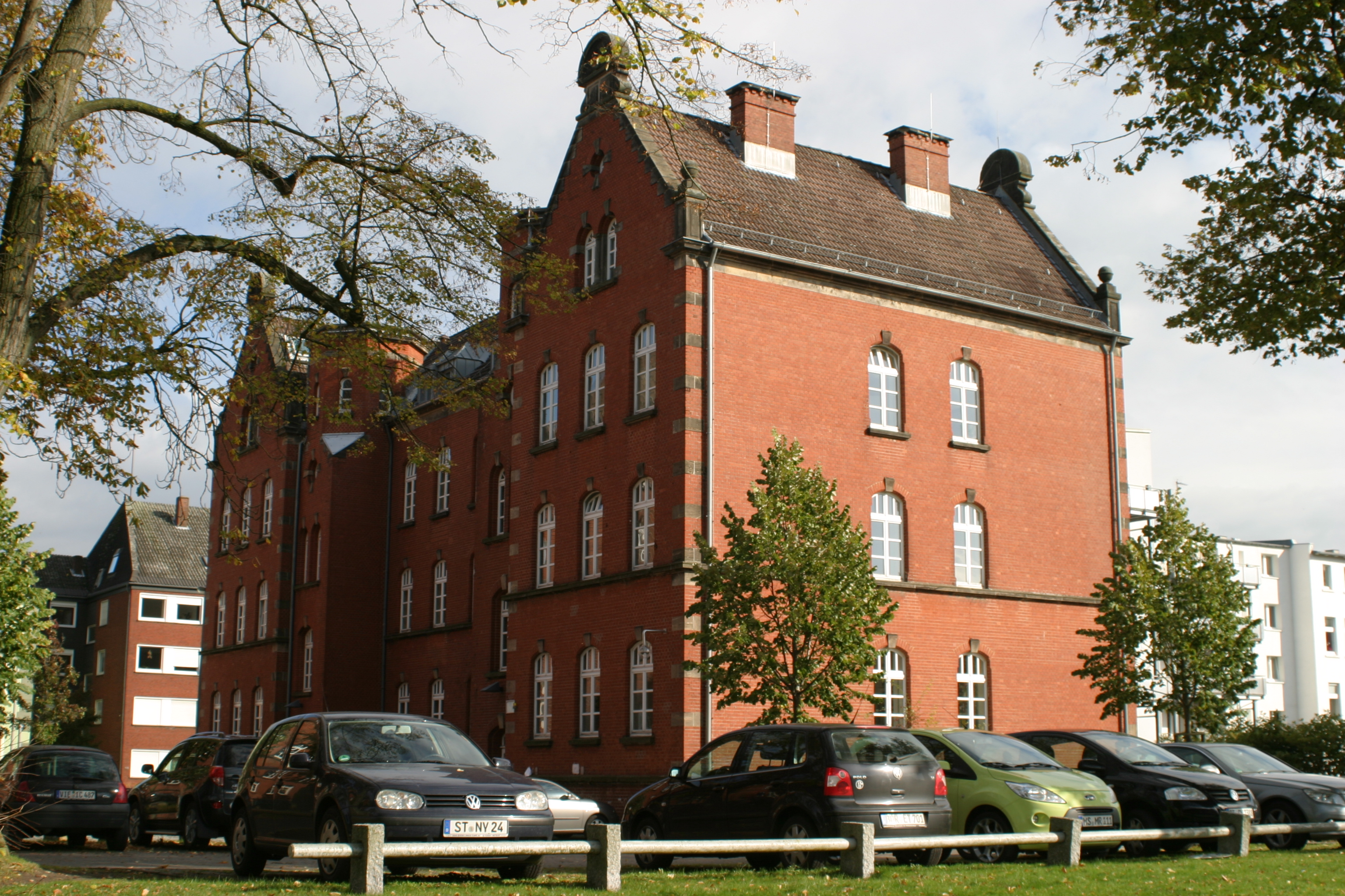 Institute for Information, Telecommunication and Media Law, Muenster, Germany